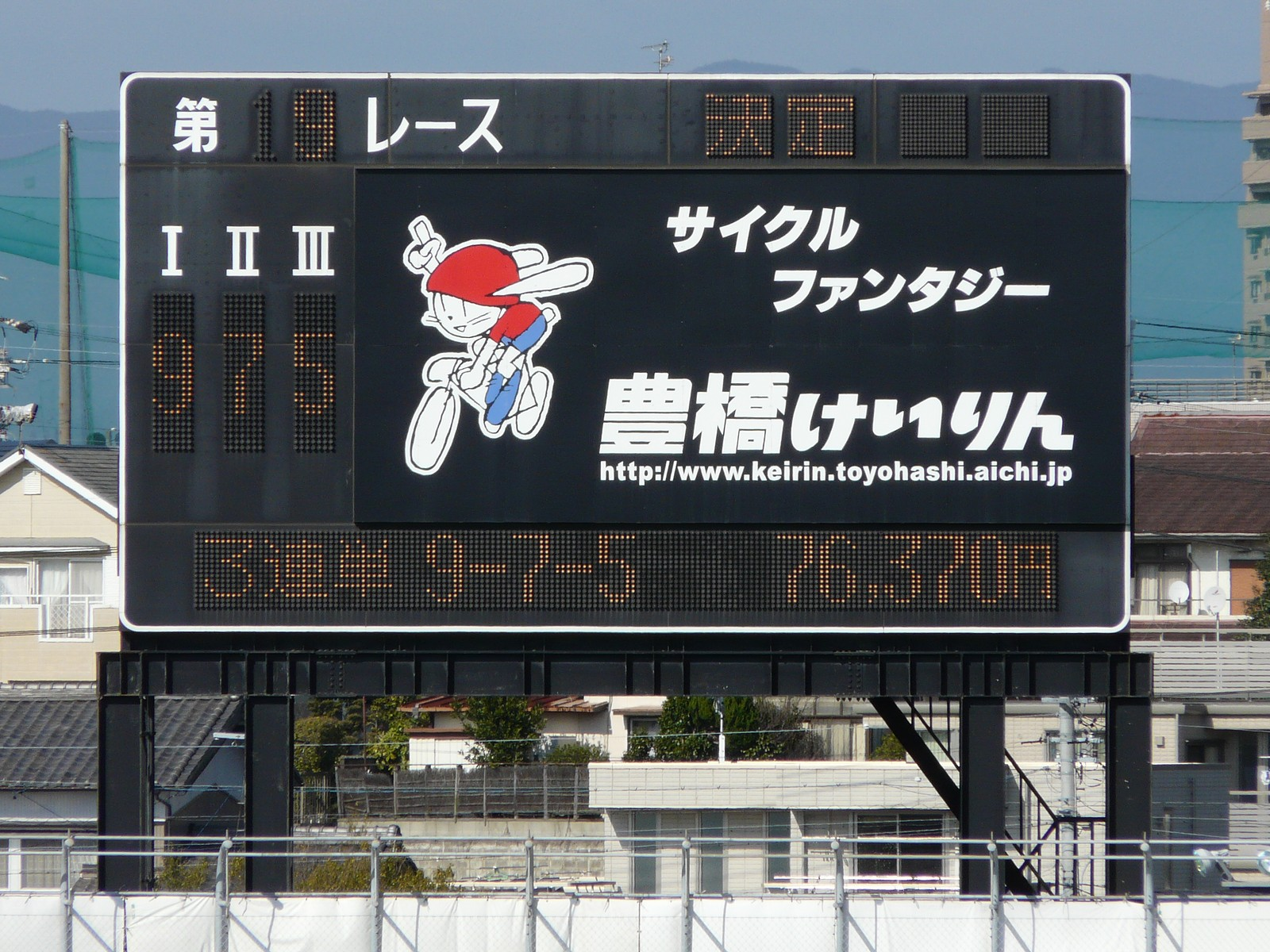 Toyohashi-keirin-2